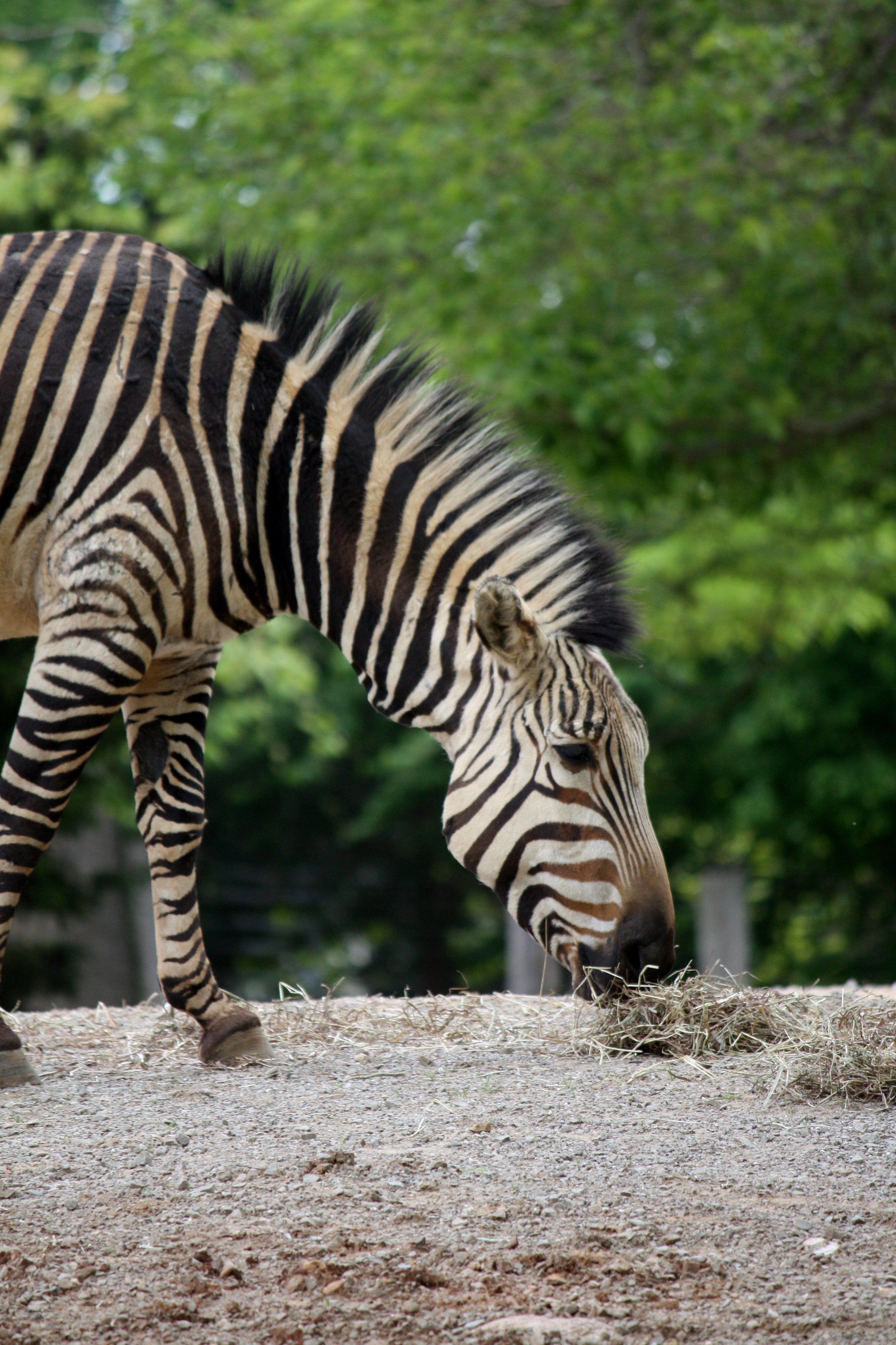 Equus zebra hartmannae at the Louisville Zoo